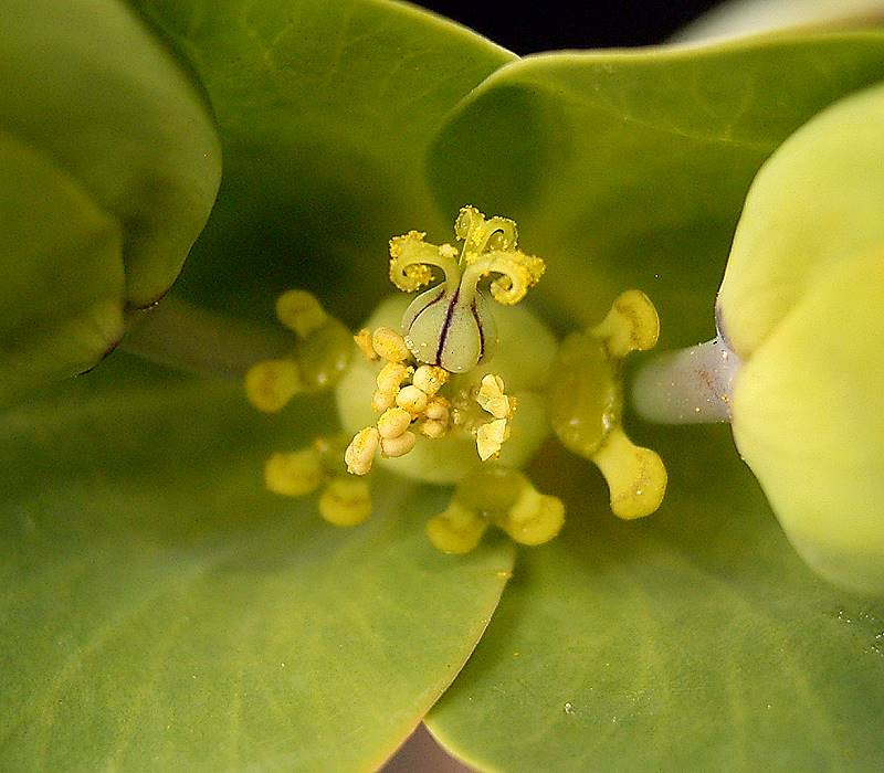 Euphorbia lathyris